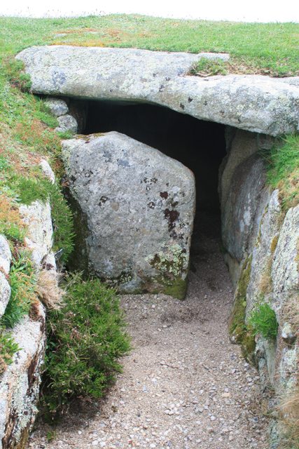 Entrance to the Porth Hellick Burial Cairn